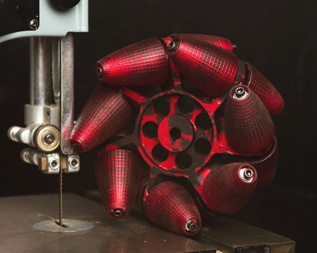 Mecanum wheels designed and produced by the FRC Team 2865 (Roboteknix) for the 2010 competition